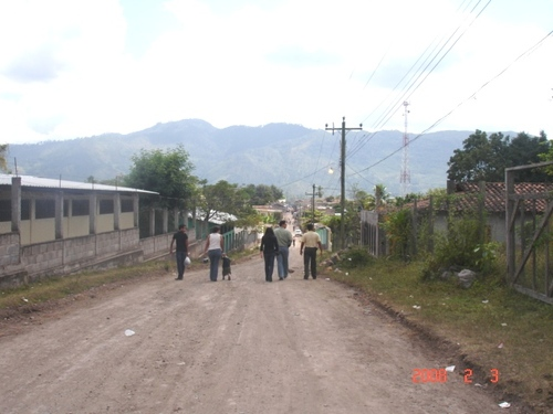 Family walking in salama